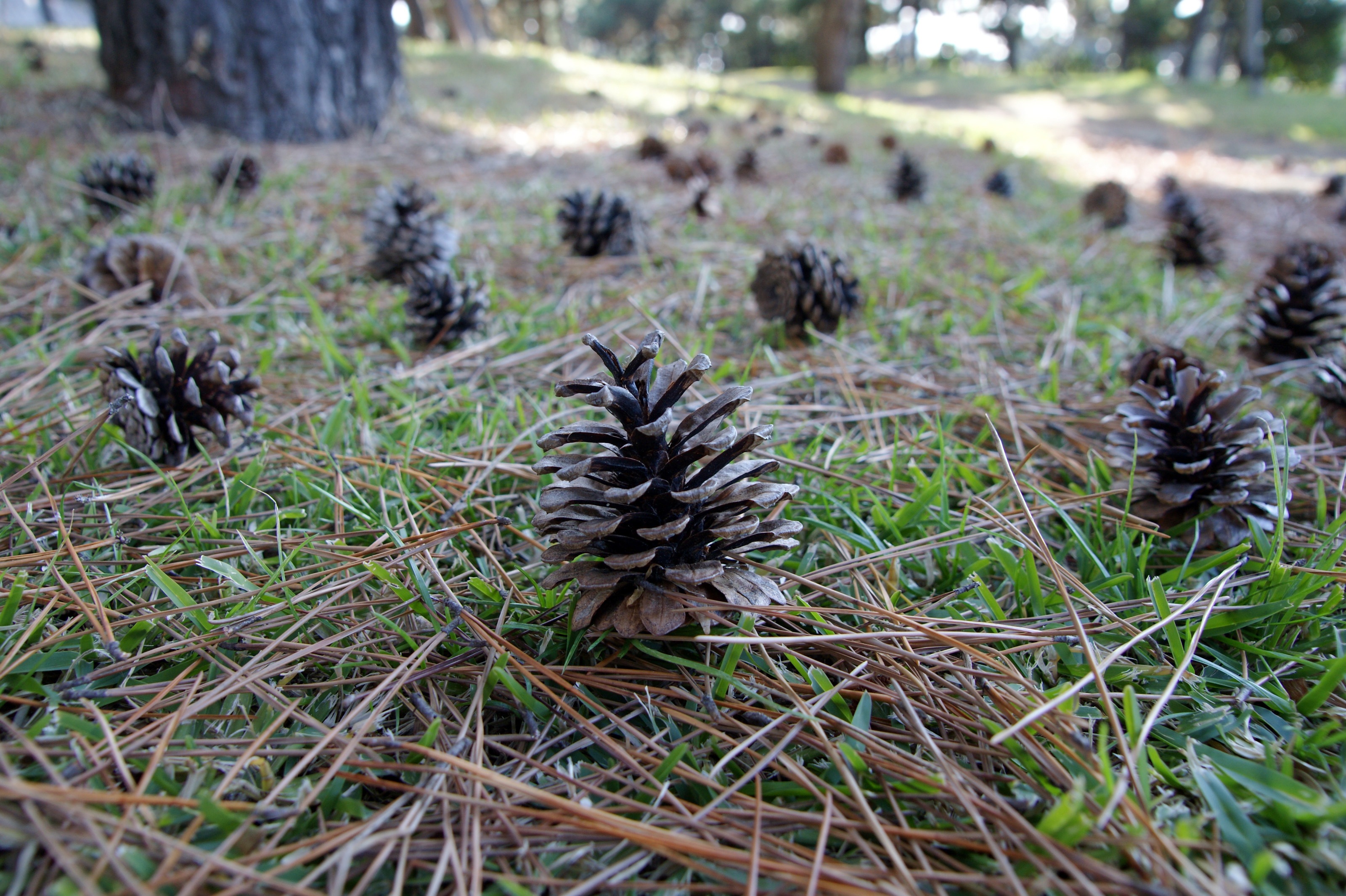 Pinus thunbergii cones, Hyogo Prefectural Maiko Park , Kobe, Hyogo prefecture, Japan